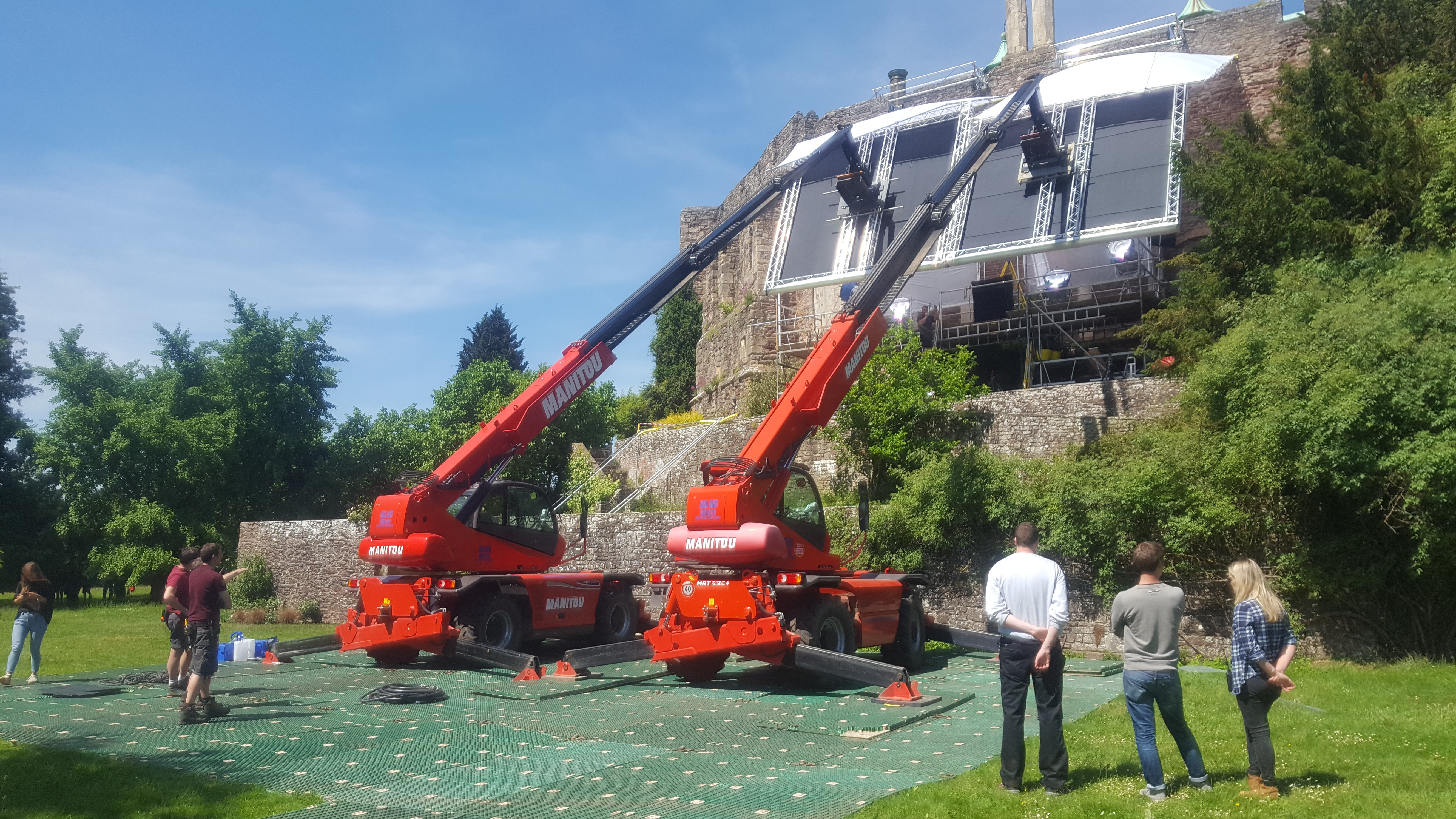 The King film crew on location at Berkeley Castle, UK. Externally lighting the Great Hall from the east.